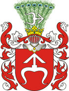 Herb Odrowaz Clan This image was uploaded in the JPEG format even though it consists of non-photographic data. This information could be stored more efficiently or accurately in the PNG or SVG format. If possible, please upload a PNG or SVG version of this image without compression artifacts, derived from a non-JPEG source (or with existing artifacts removed). After doing so, please tag the JPEG version with Superseded|NewImage.ext and remove this tag. This tag should not be applied to photographs or scans. For more information, see BadJPEG .